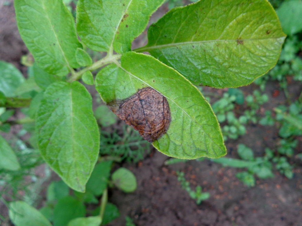 Alternaria solani. Found in Bērzi village near Bauska city, Latvia